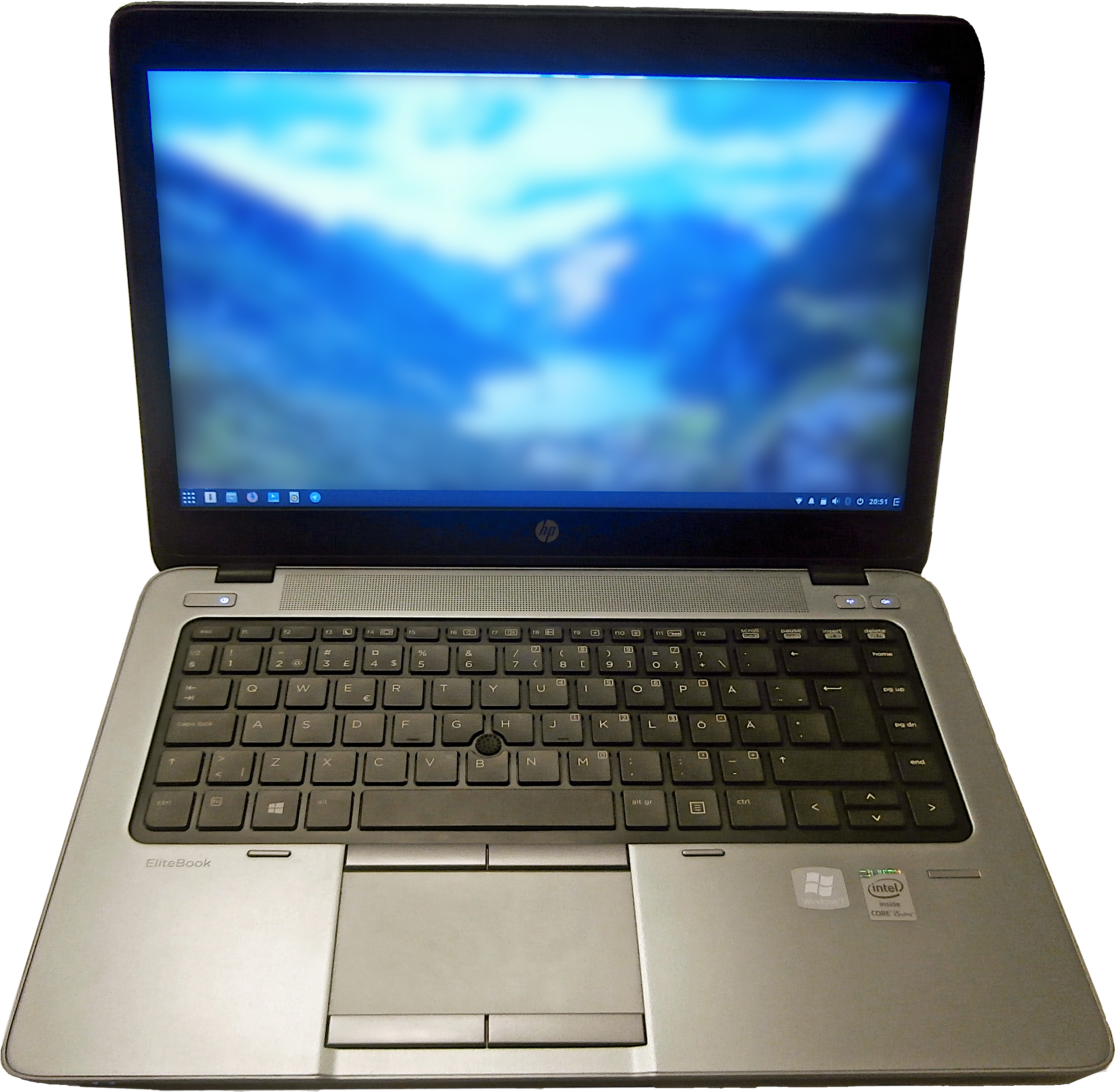 HP Elitebook 840 G1 running Solus Budgie as operating system. Wallpaper blurred for copyright reasons (see the other description box for wallpaper and non-blurred version).